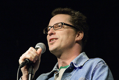 Photographer: Victor S. Engel Johnny Hardwick is pictured performing onstage as a standup comic at the Velveeta Room on 6th Street, Austin, Texas.